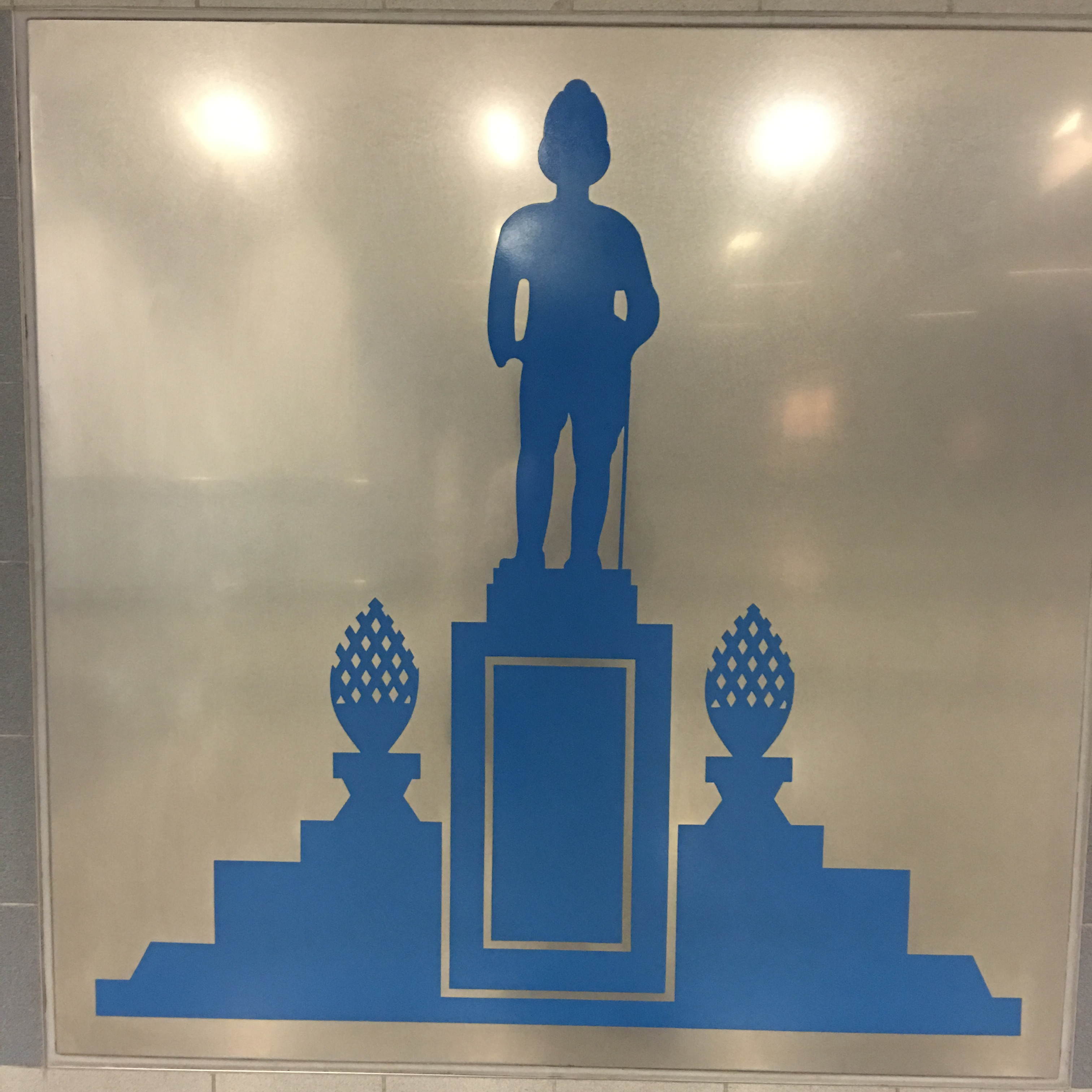 "Statue of Rama VI" - The symbol of Si Lom Station